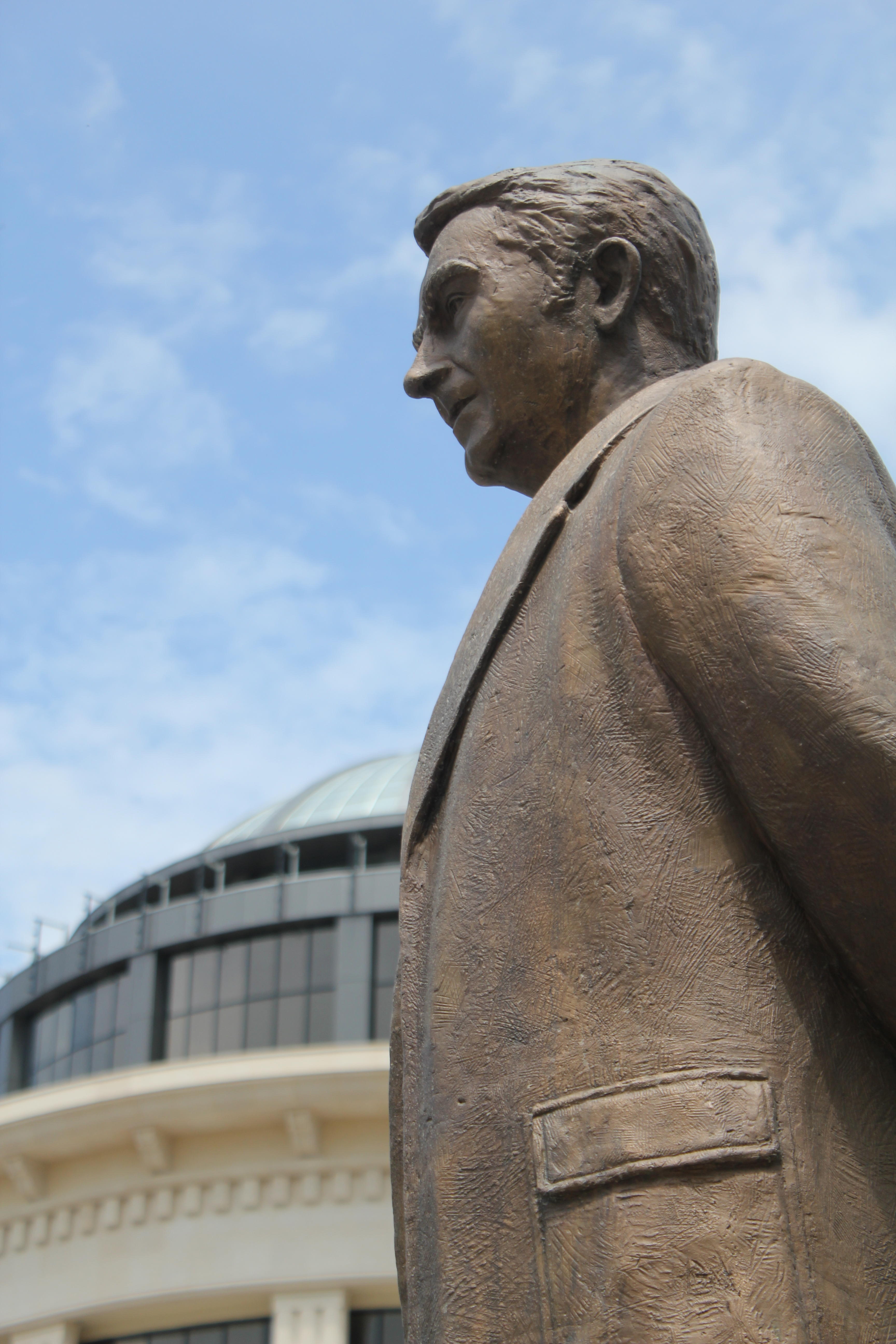 Aco Šopov's monment on the Bridge of Arts in Skopje (Republic of Macedonia)